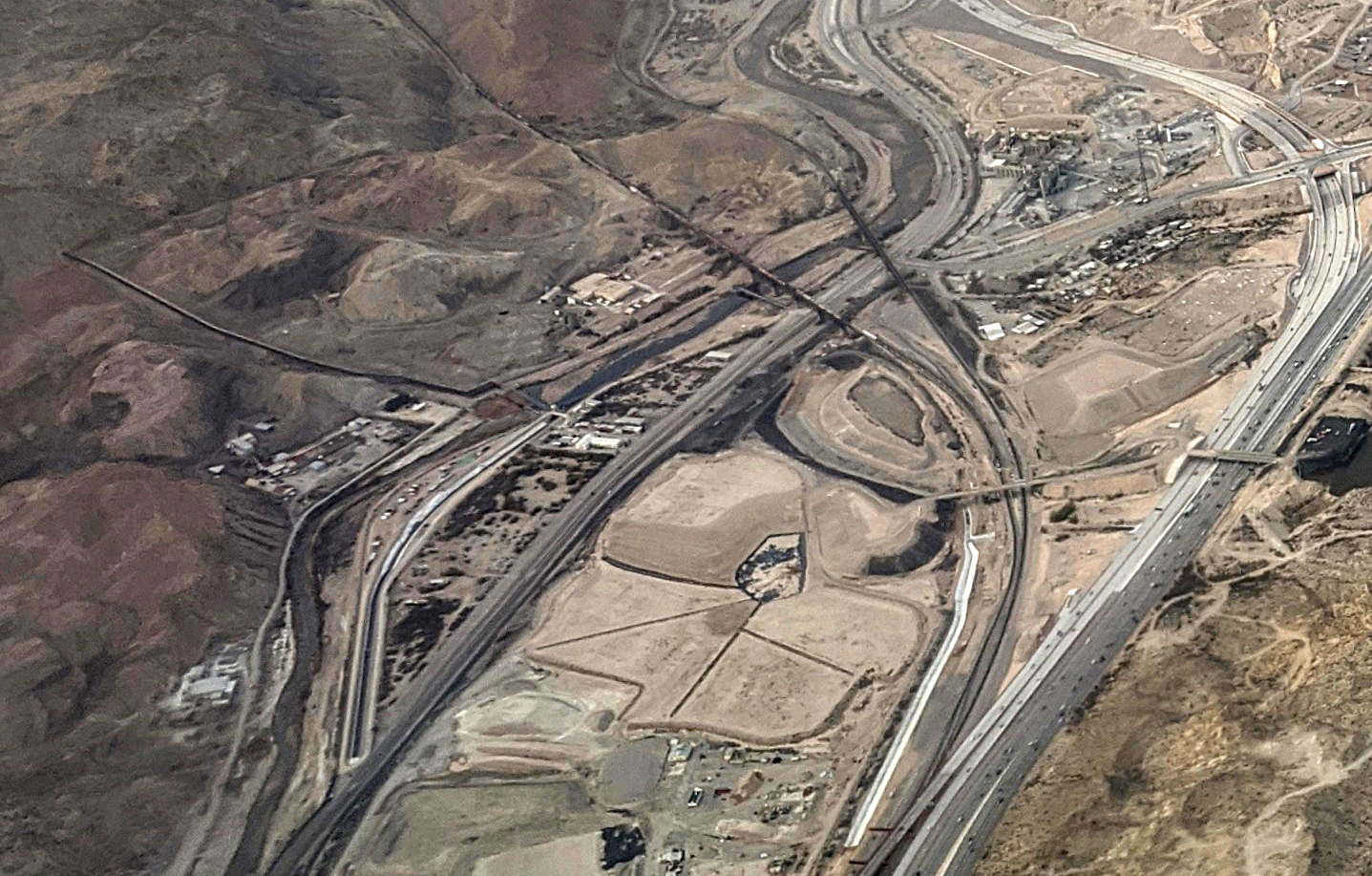 Aerial view from the southeast (over downtown El Paso) of the corner of Texas, New Mexico, and Mexico, with the Rio Grande, American Diversion Dam, American Canal, and abandoned Smeltertown site, and the old ASARCO smelter area. The dam is in the center, below the railroad bridges over the river. The American Dam Headquarters is the white building. A segment of new privately built border wall is seen extending west from the dam. The highways are US 85 (CanAm Highway) on the left, Texas Loop 375 and Interstate 10 on the right.